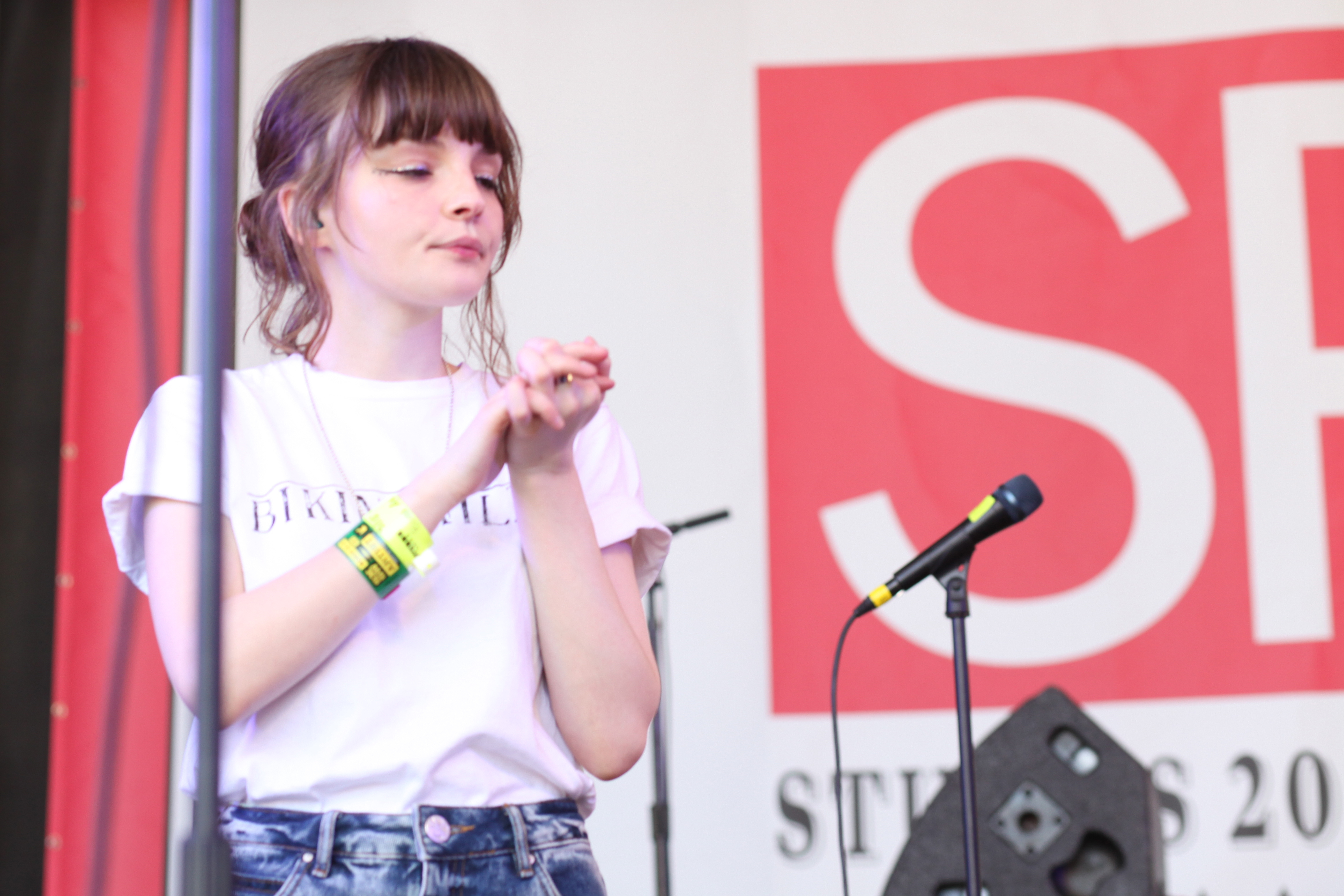 Chvrches at SPIN Party, SXSW